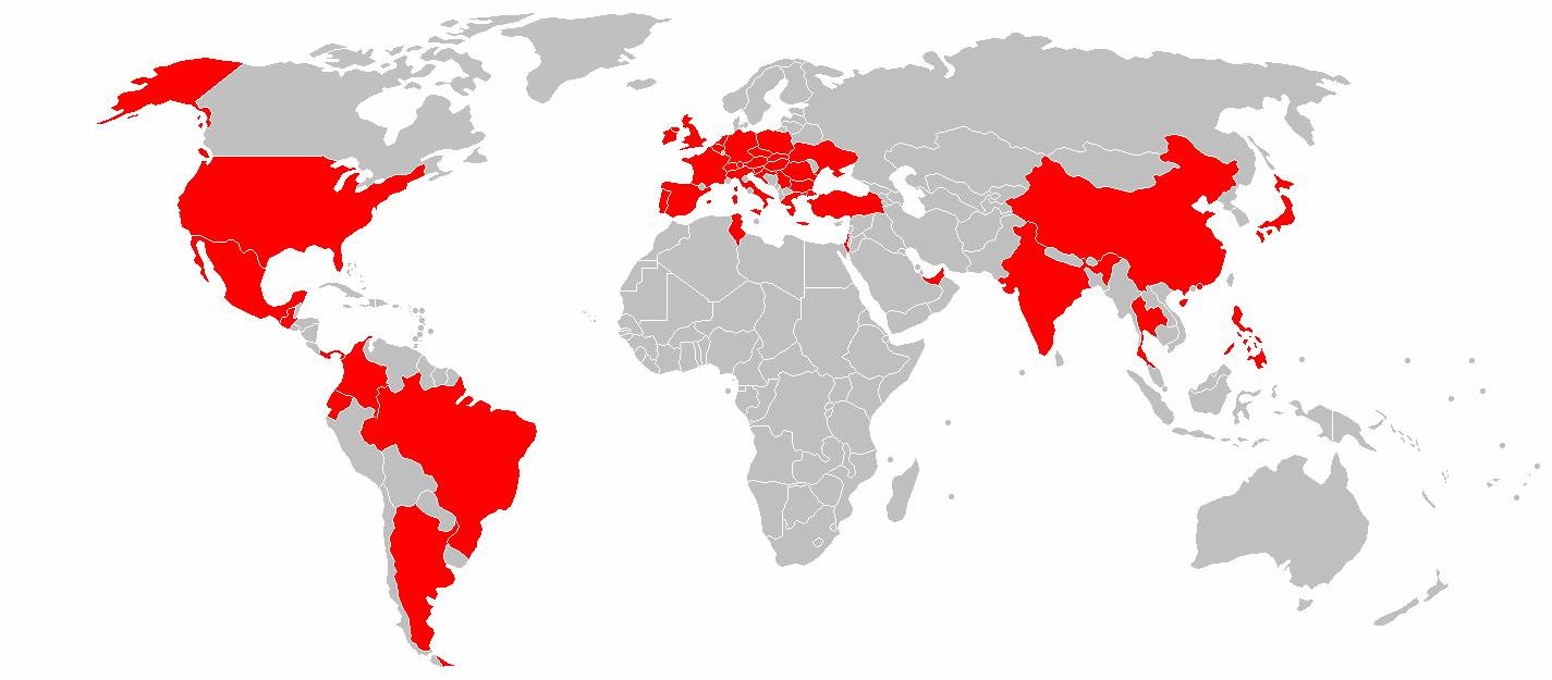 Generali Group world locations